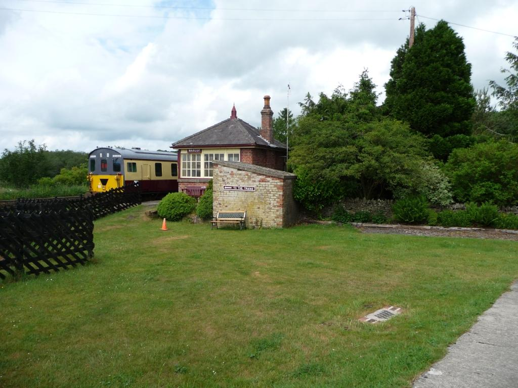 This way to the trains, Warcop Station. The Eden Valley Railway's trains depart from the original platform at Warcop, but most of their station infrastructure is now further east.